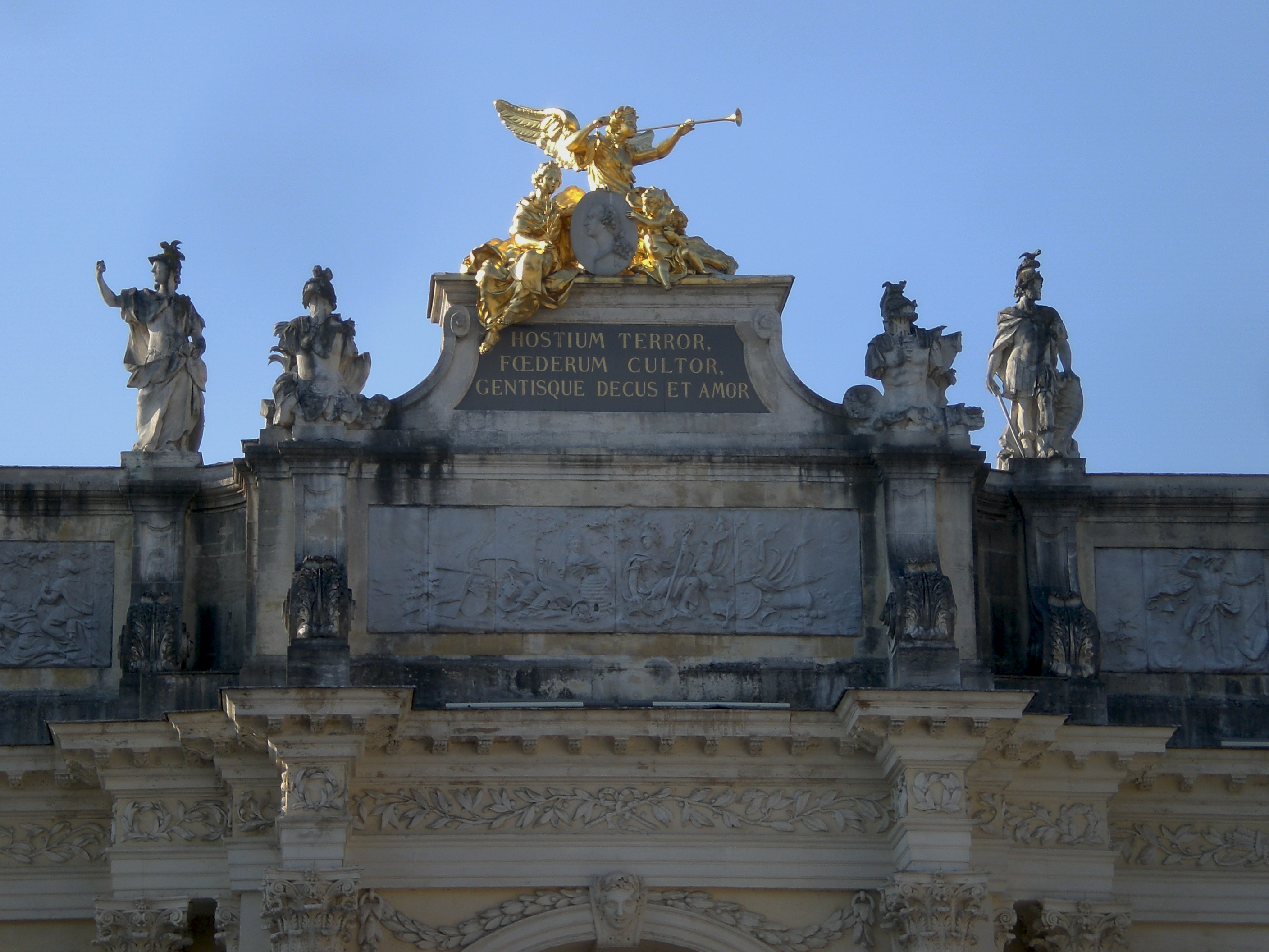 Nancy, Héré Arch